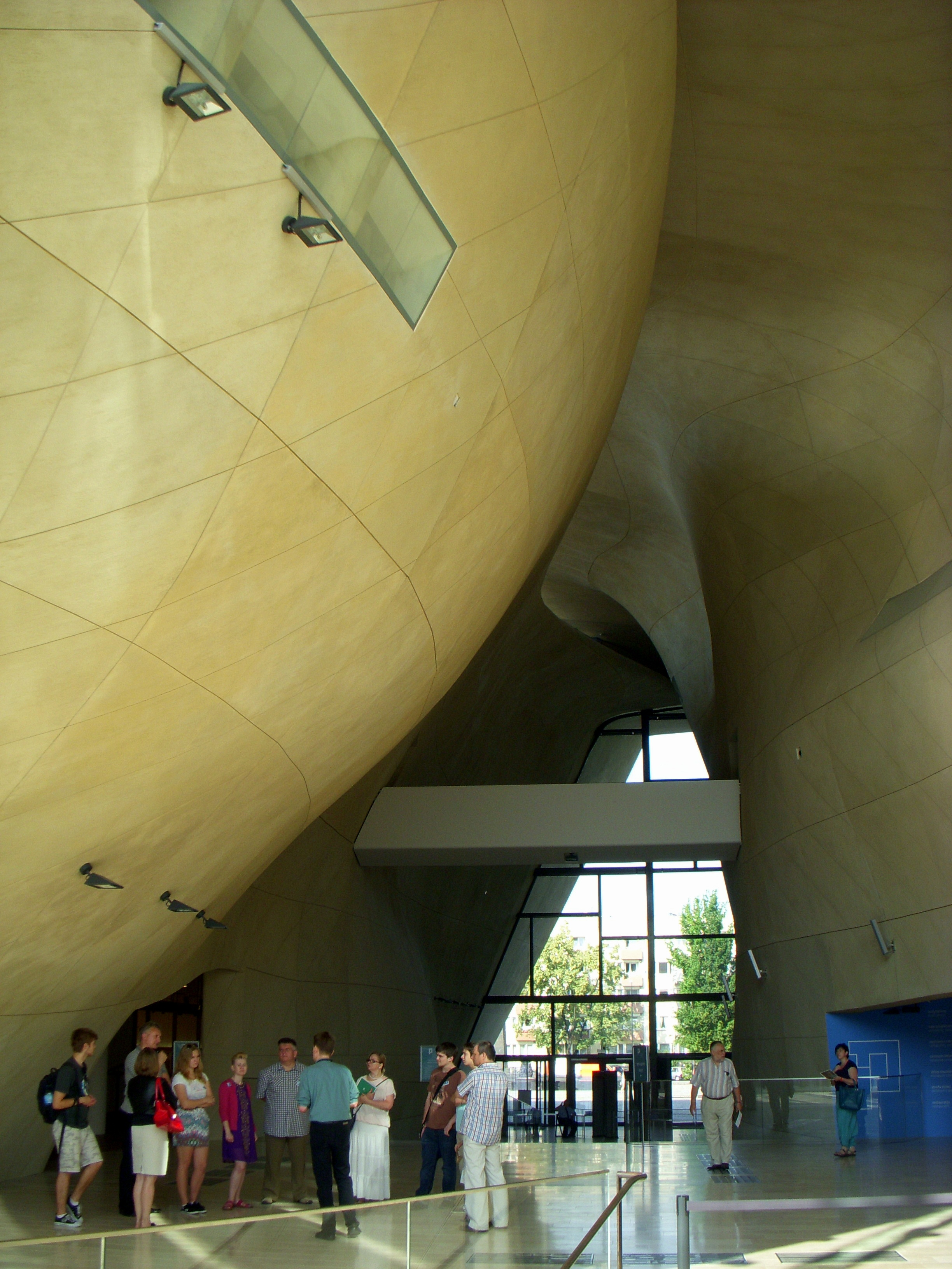 Museum of the History of Polish Jews - interior